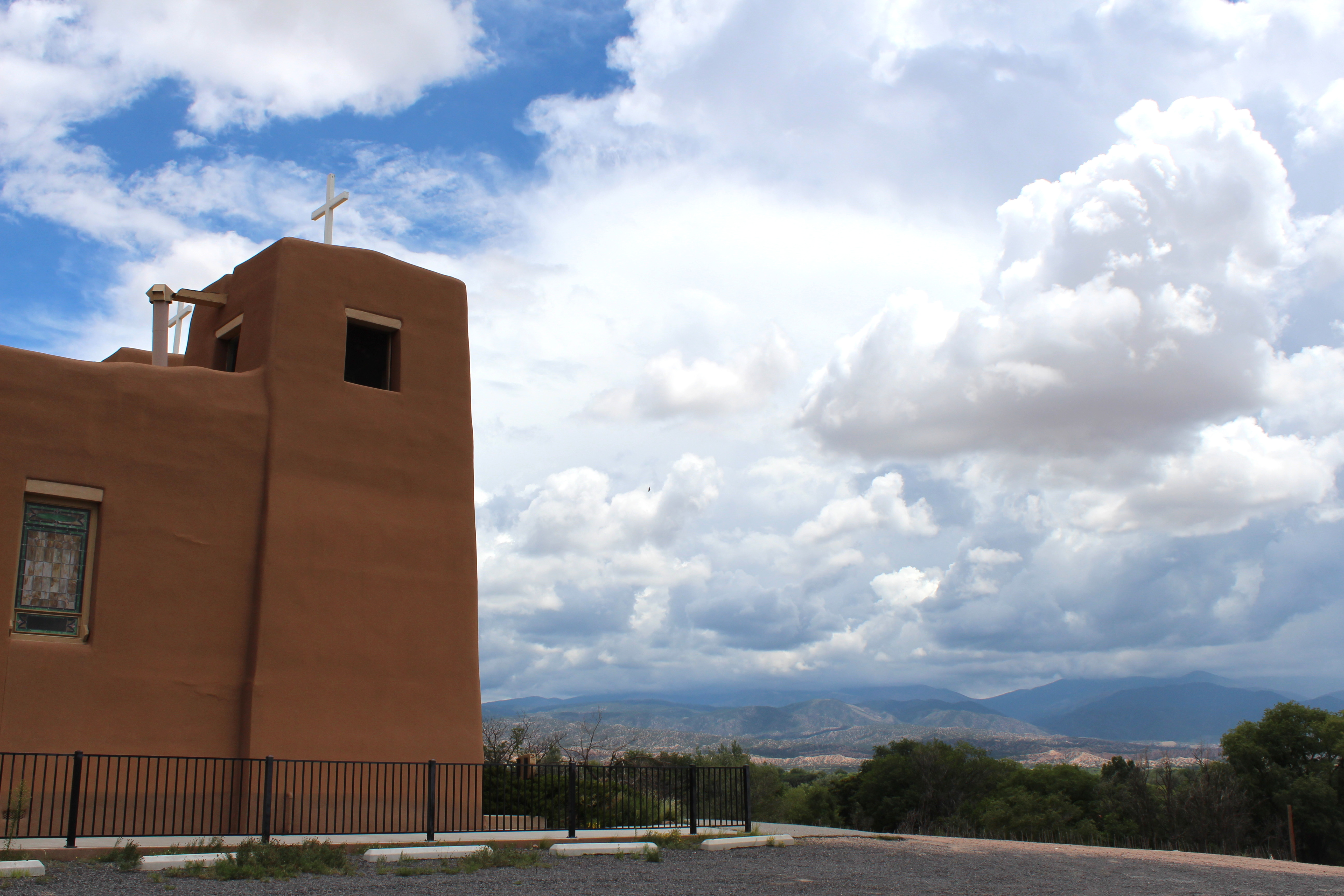 Nambé Pueblo, New Mexico USA - Sacred Heart Church